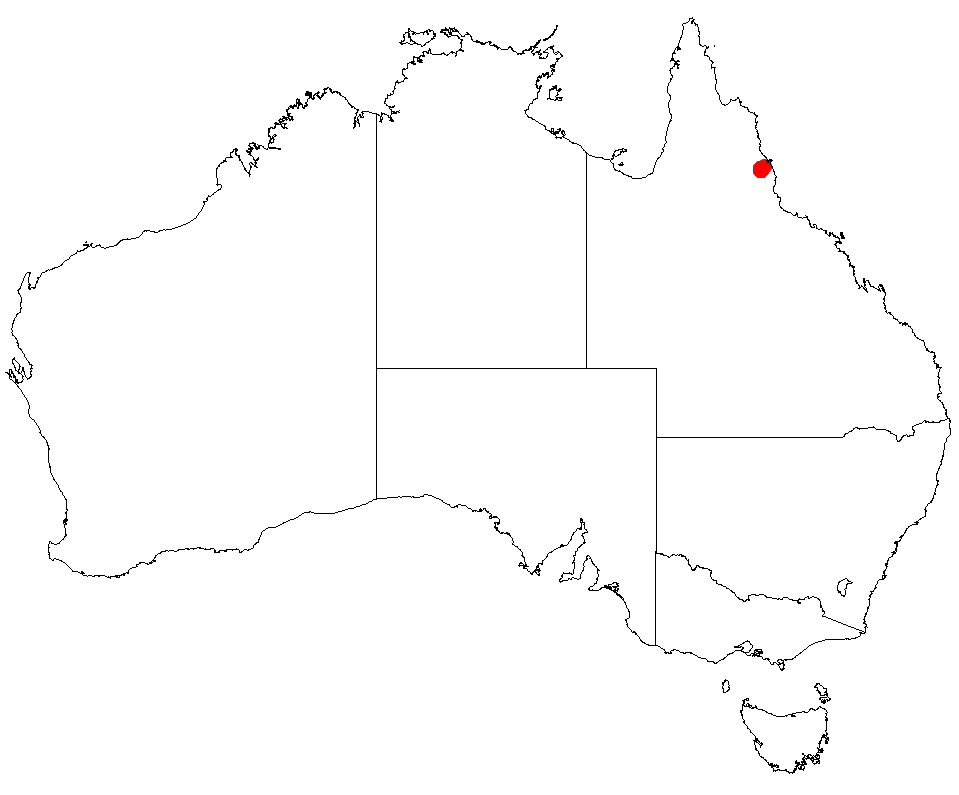 Parsonsia wongabelensis Occurrence data for Australia from Australasian Virtual Herbarium downloaded 22 December 2018